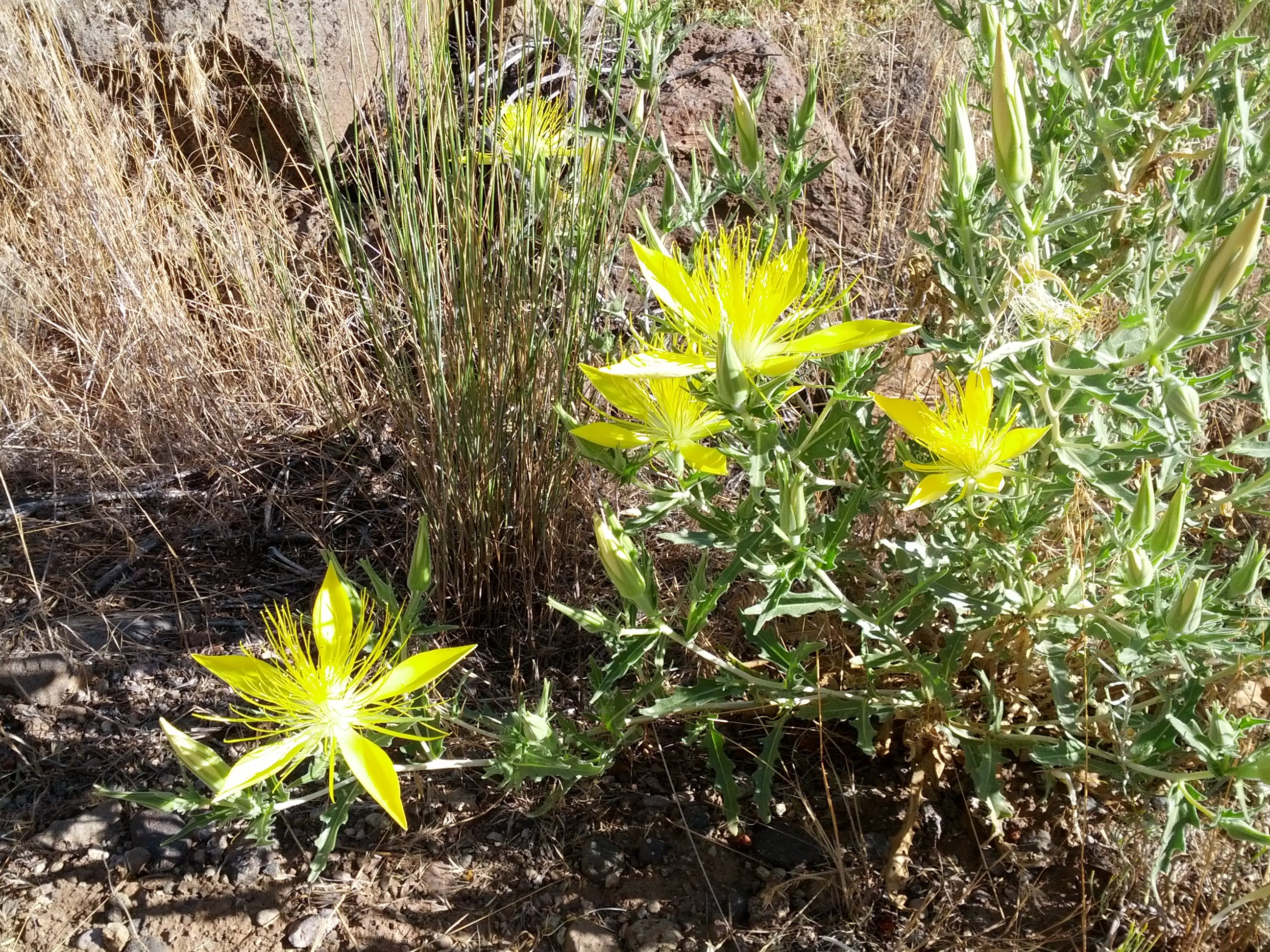 Mentzelia laevicaulis (Losaceae family). Picture taken along the lower section of the Bizz Johnson Trail east of Susanville, CA on 7/26/2015